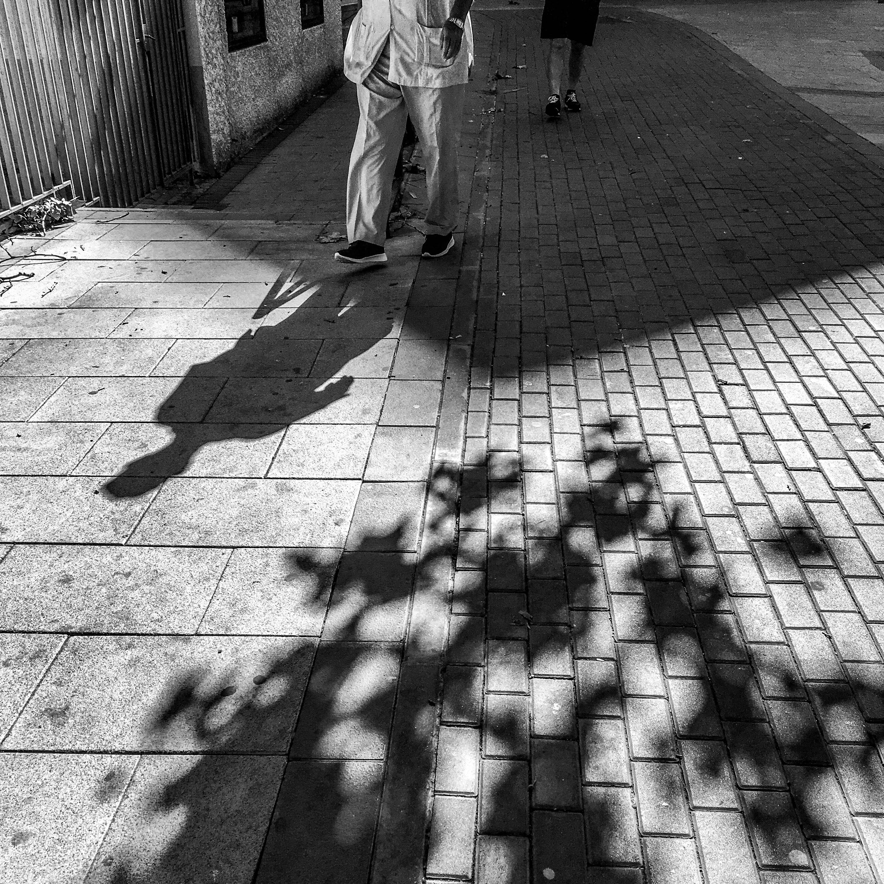 Template:Street photography with smartphone.